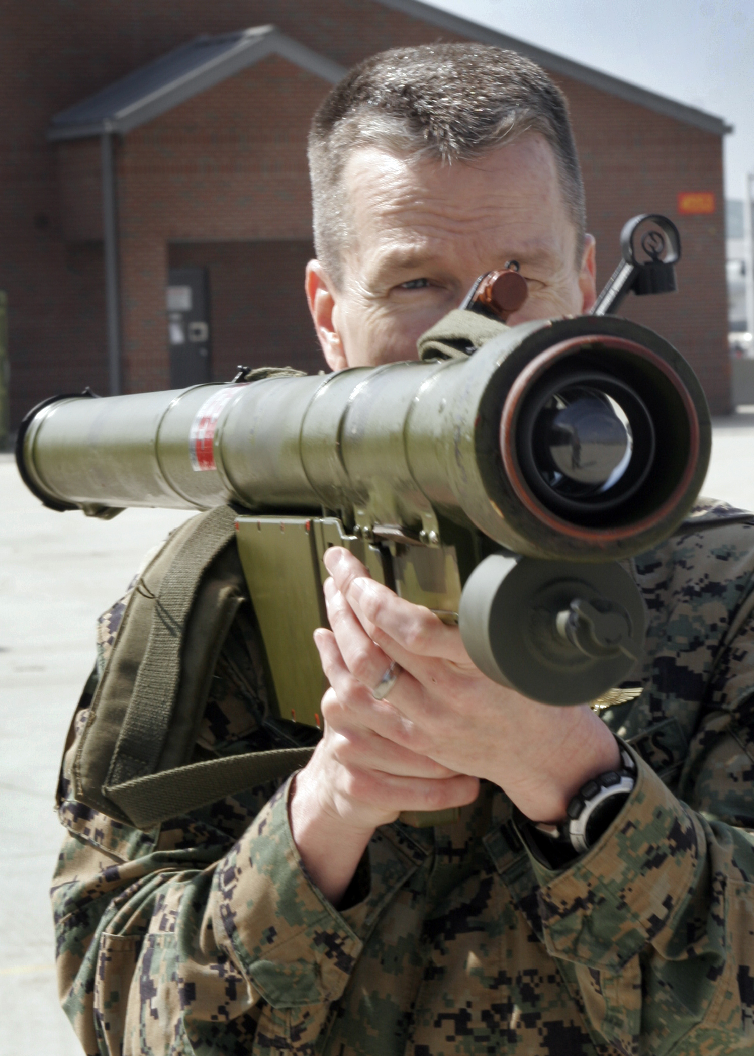 Col. Ben Hancock, assistant chief of staff for 2nd MAW’s operations section, practices locking onto an aircraft with an inert SA-7 man portable air defense trainer during a Missile and Space Intelligence Center training day aboard Marine Corps Air Station Cherry Point, March 1. The mobile training unit’s visit here was the final stop on a tour which included stops at Marine Corps Air Stations Beaufort and New River to give aviators and intelligence Marines a better understanding of enemy threat weapon capabilities and how MSIC can support 2nd Marine Aircraft Wing units, said Capt. Samuel Curet, 2nd Platoon commander for 2nd MAW’s intelligence section. 2nd Marine Aircraft Wing & Marine Corps Air Station Cherry Point Photo by Lance Cpl. Stephen Stewart Date Taken:03.01.2012 Location: Marine Corps Air Station Cherry Point